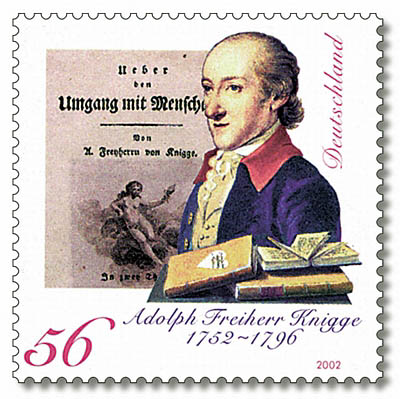 Stamp from Deutsche Post AG from 2002, 250th birthday of Adolph Freiherr Knigge